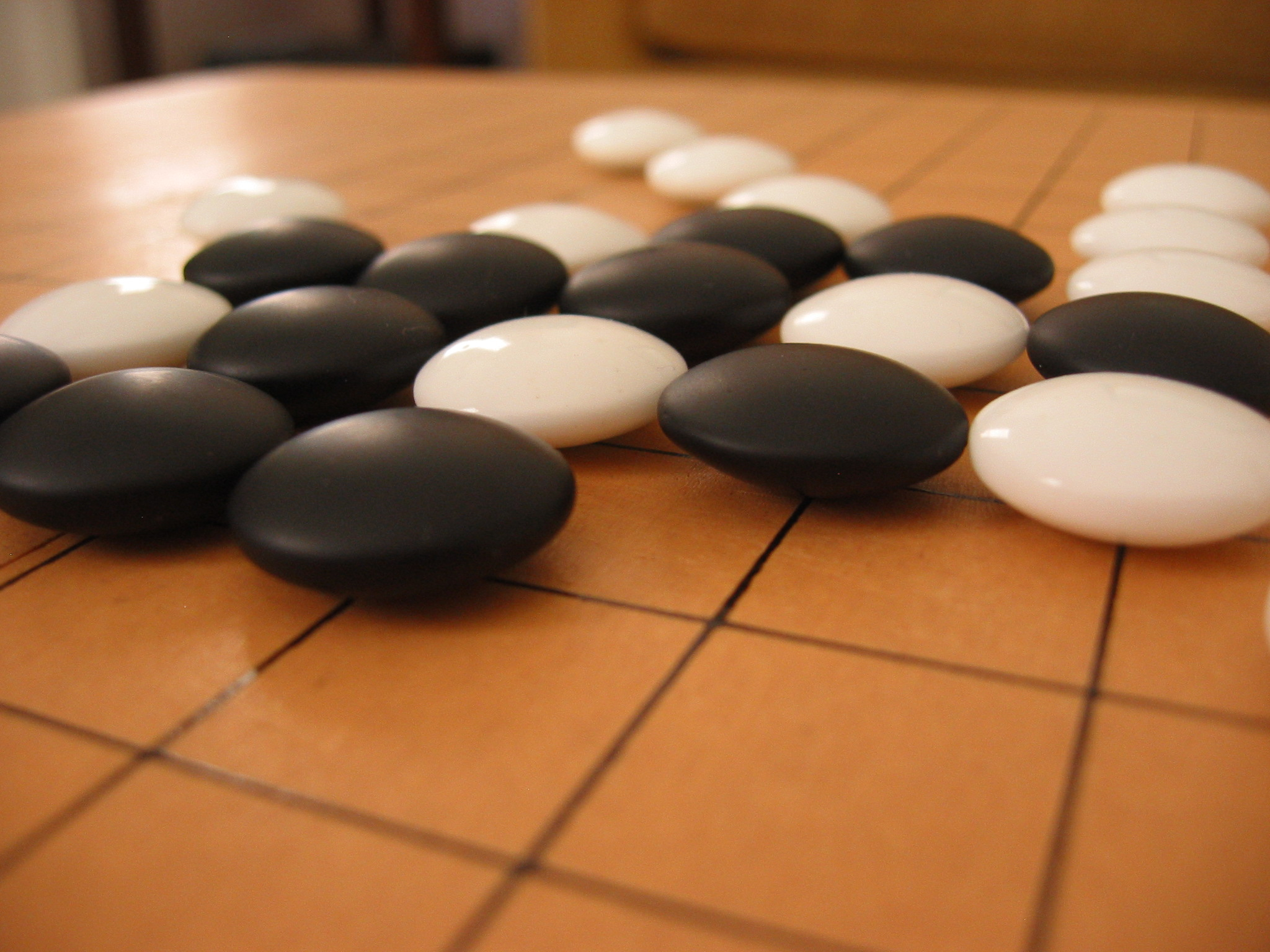 Playing Pente with Go stones on a Go board will blow a Go player's mind. I guess it's like Kasparov playing Checkers with Chess pieces. "King me!"